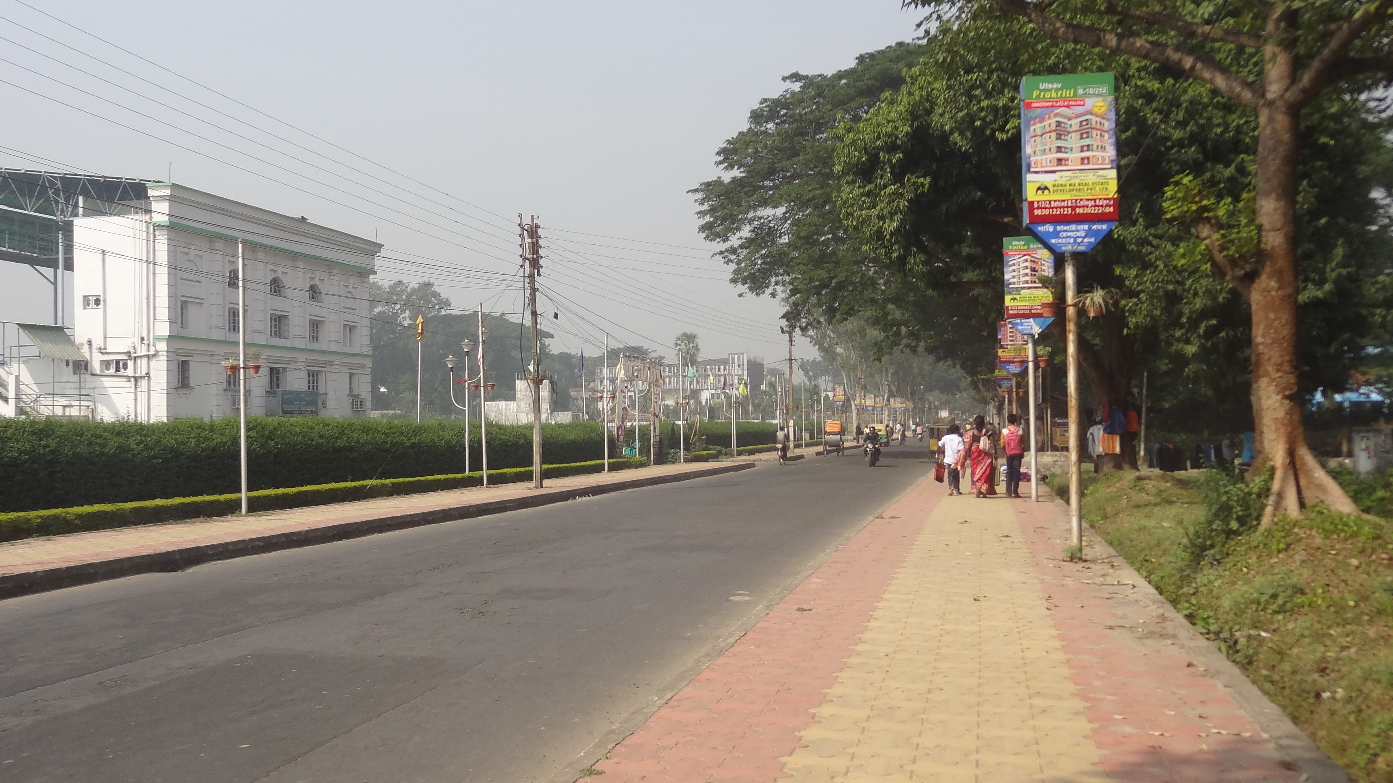 A-B Connector, a road in Kalyani West Bengal